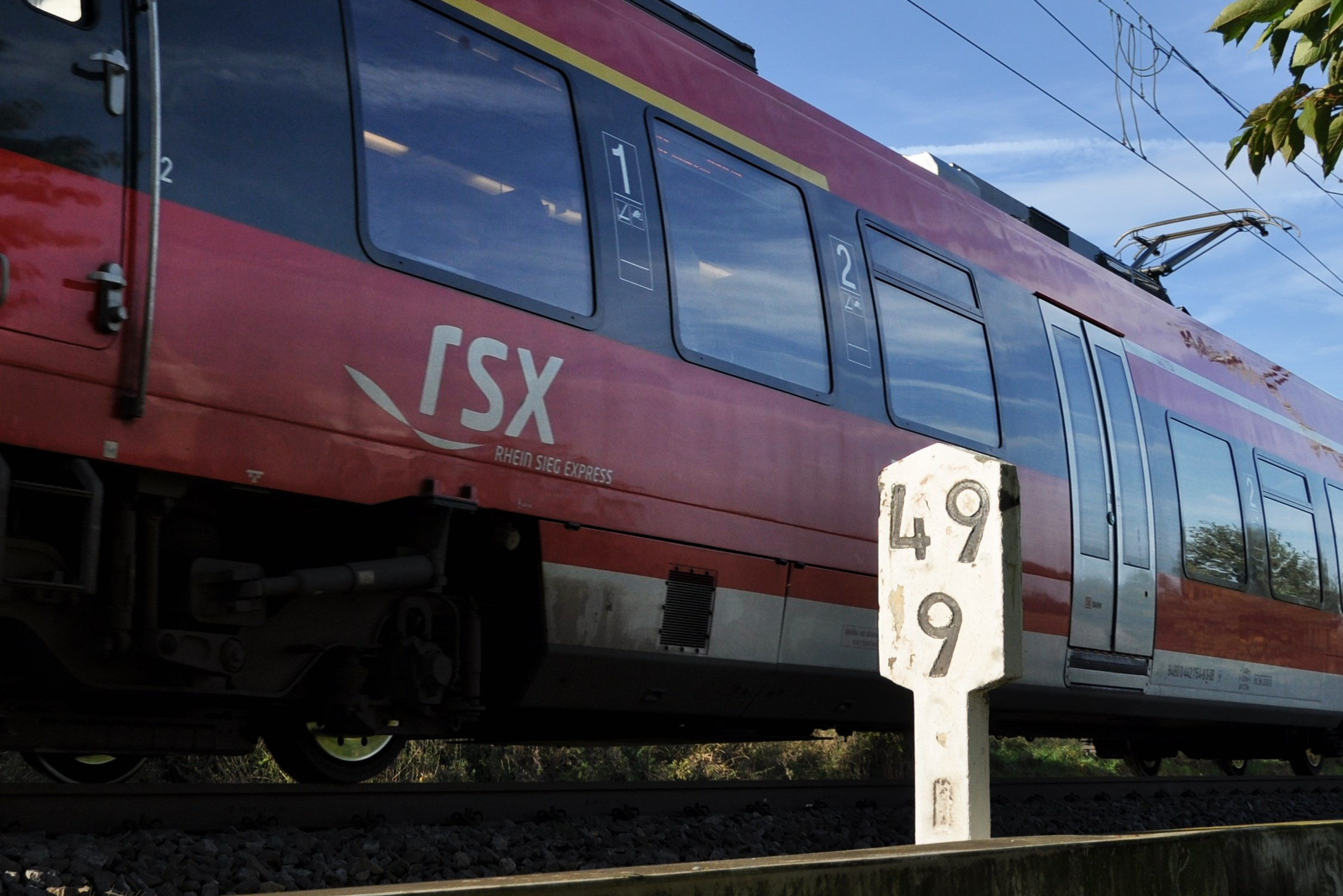 Kilometer stone and DBAG 442 254 EMU next to Langerwehe (October 2013).